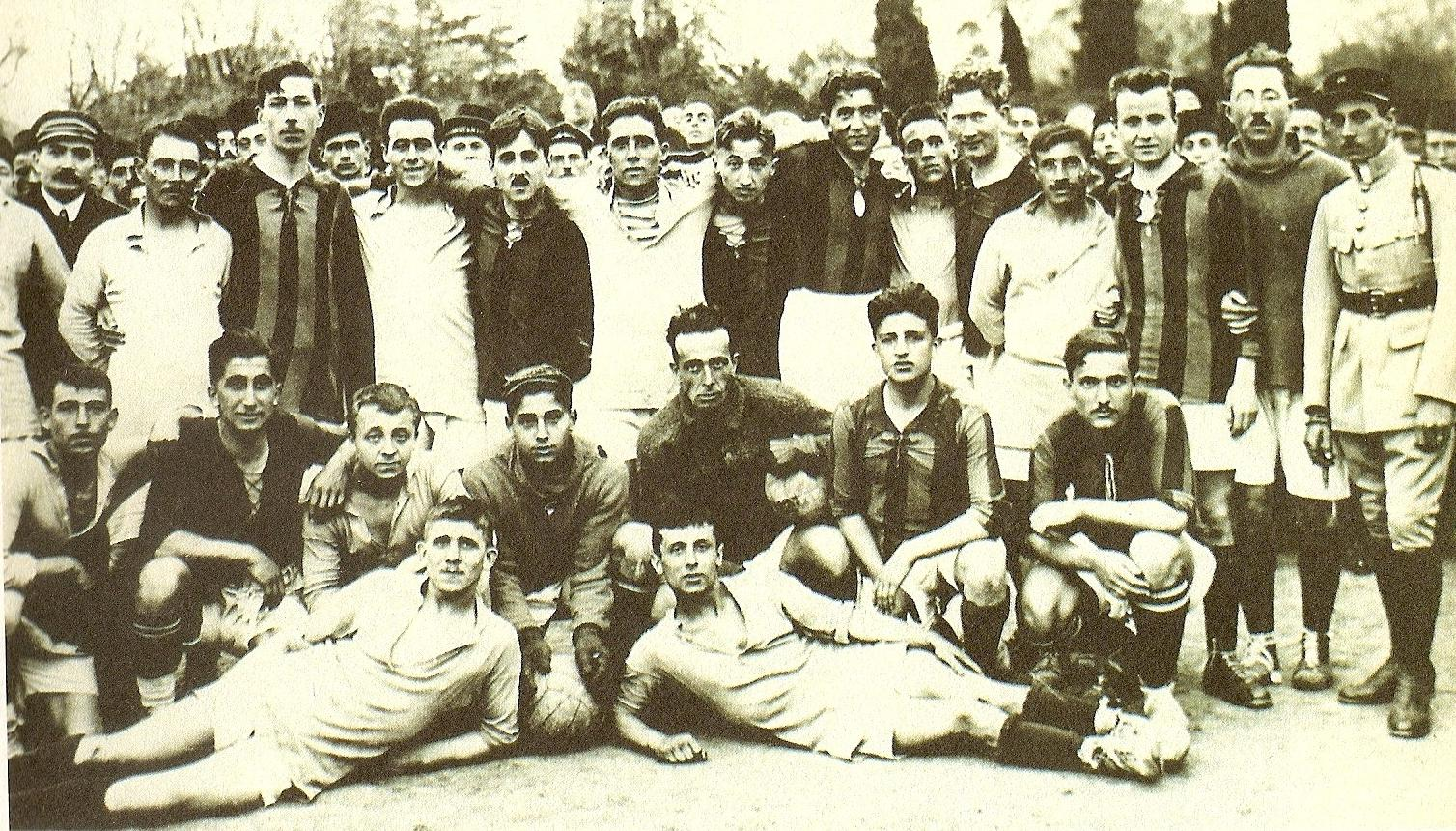 Galatasaray football team in 1925-26 season. The person second from the left in middle row is Nihat Bekdik.